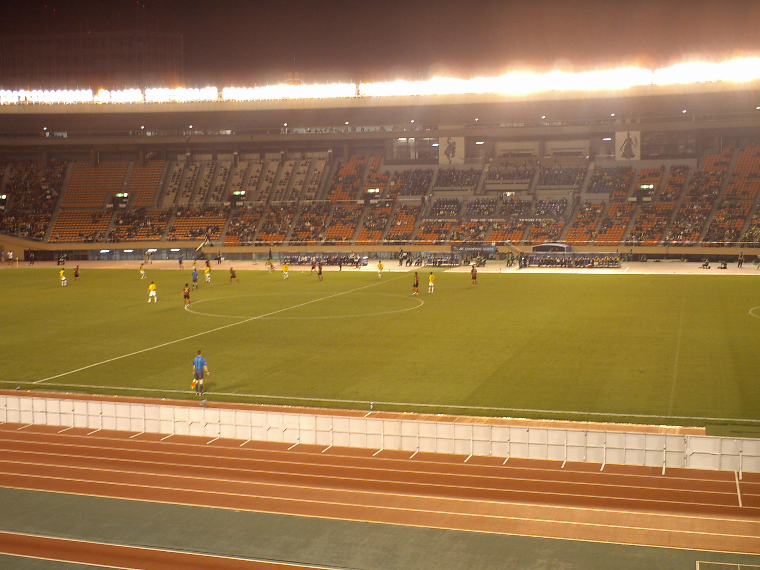 AFC Champions League 2009 Final match in Japan. Pohang Steelers (South Korea) - Al-Ittihad (Saudi Arabia).